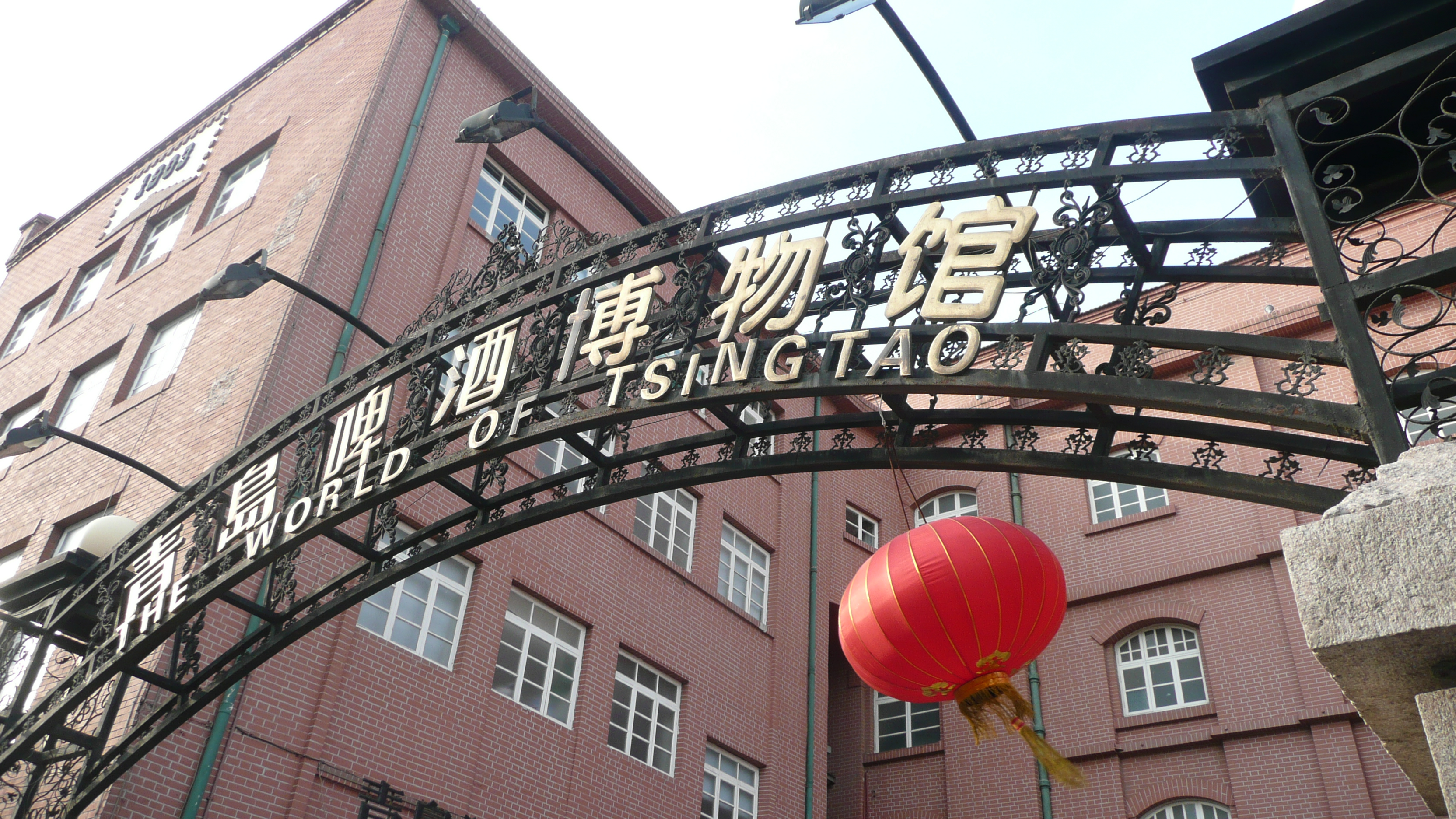 Entrance of Tsingtao Brewery and Museum in Qingdao